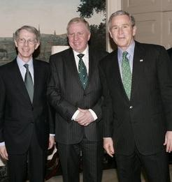 Crop of :Image:StPatrickWhiteHouse2005.jpg on Commons. 100px